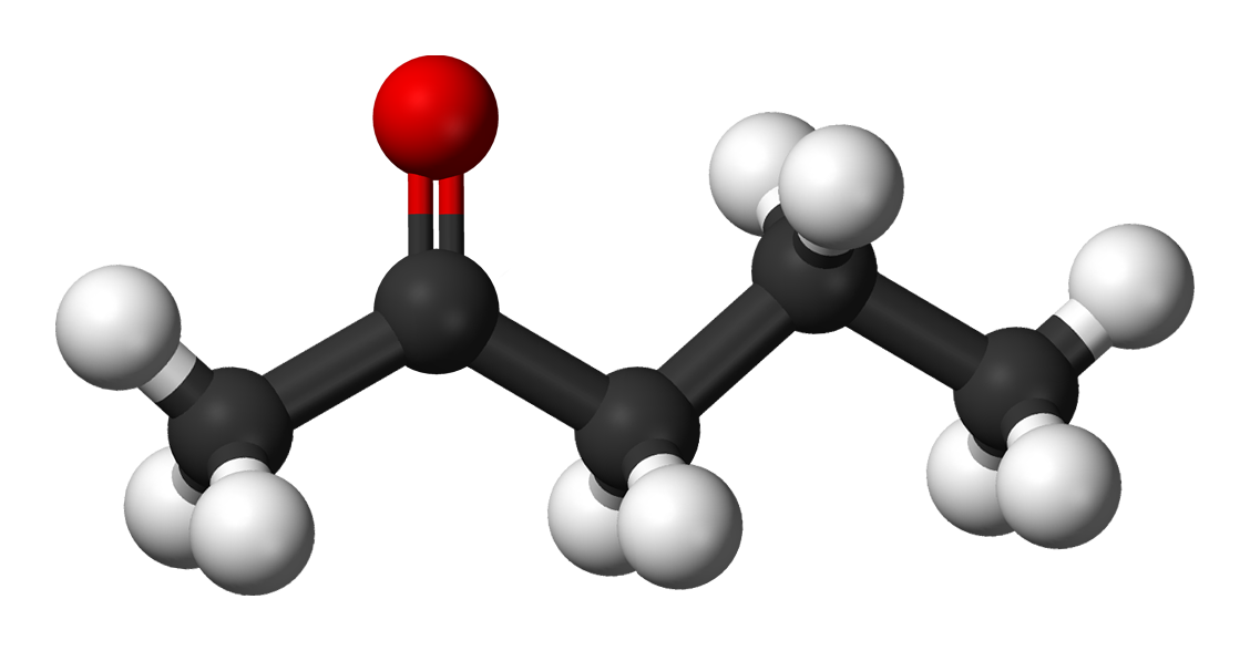 Ball-and-stick model of the 2-pentanone molecule (also known as pentan-2-one), a ketone with five carbon atoms.